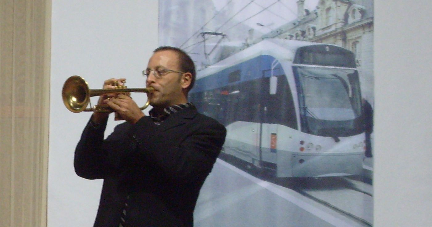 Ernie Hammes, Luxembourgish jazz trumpet player, at the opening of the Oeko-Foire at Lux-Expo